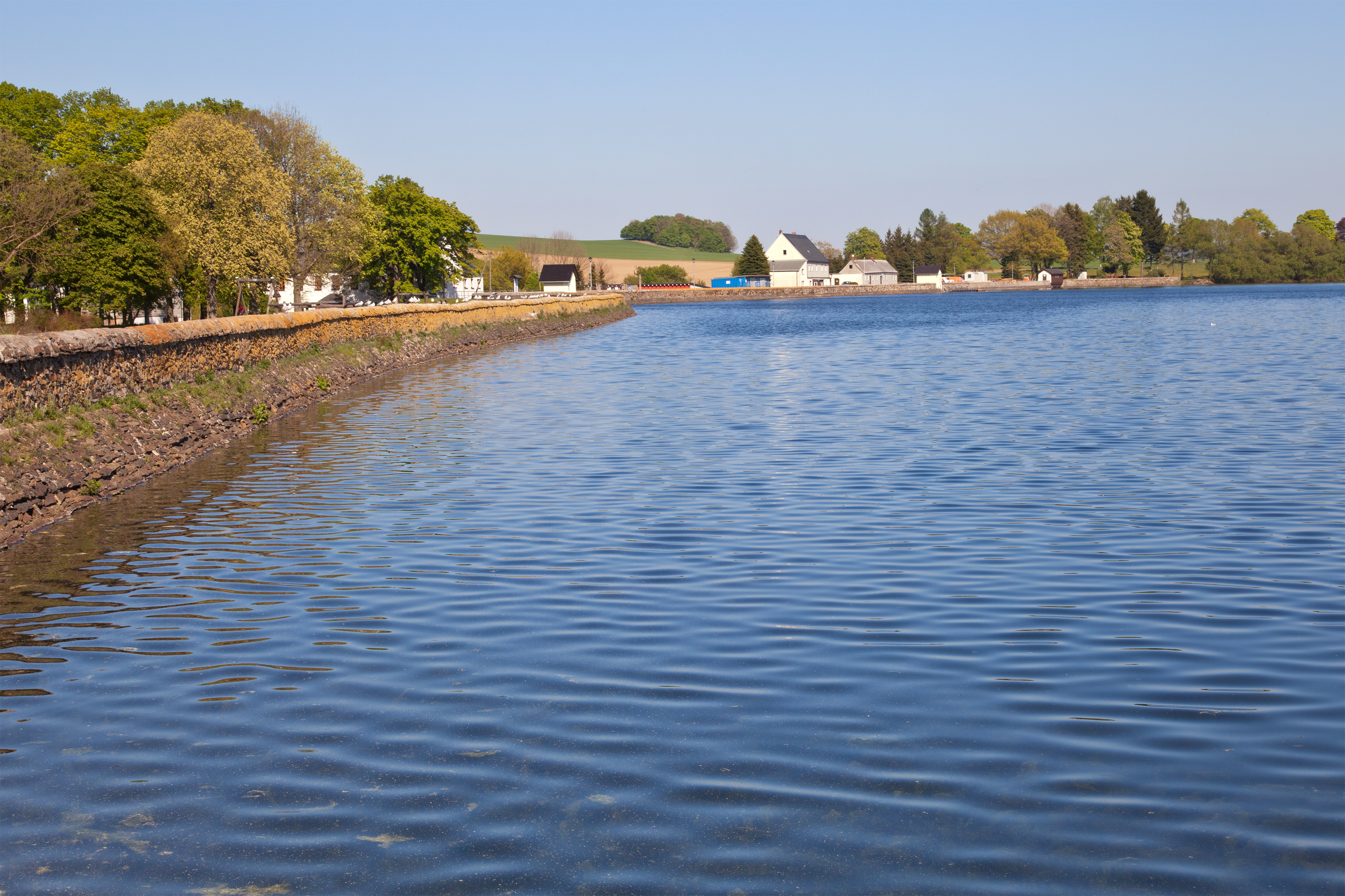 Großhartmannsdorf, lake "Unterer Großhartmannsdorfer Teich"